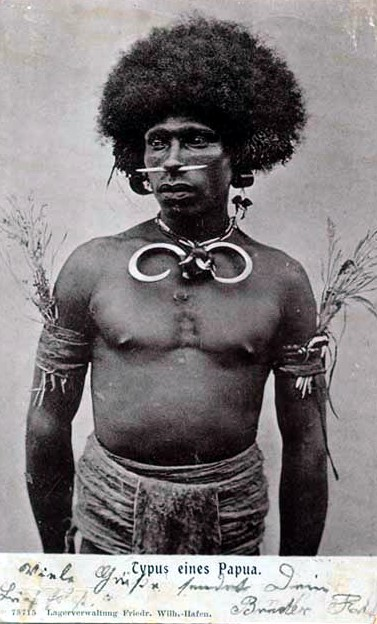 Typus eines Papua (Papuan type), German New Guinea. Early postcard addressed from Berlinhafen (Deutsch Neu-Guinea) to Germany, 1904